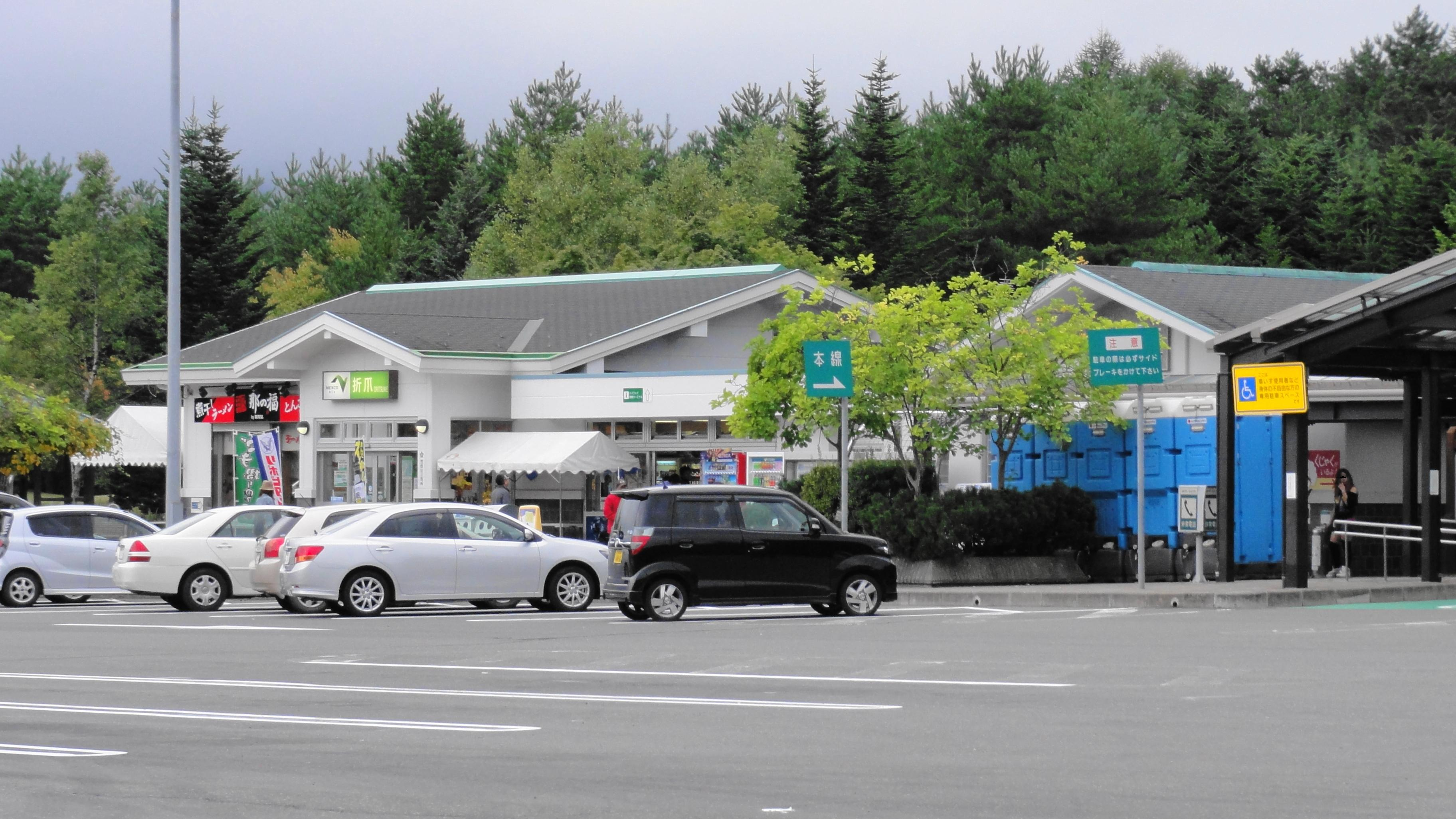 Orizume Service Area,Iwate prefecture , Japan